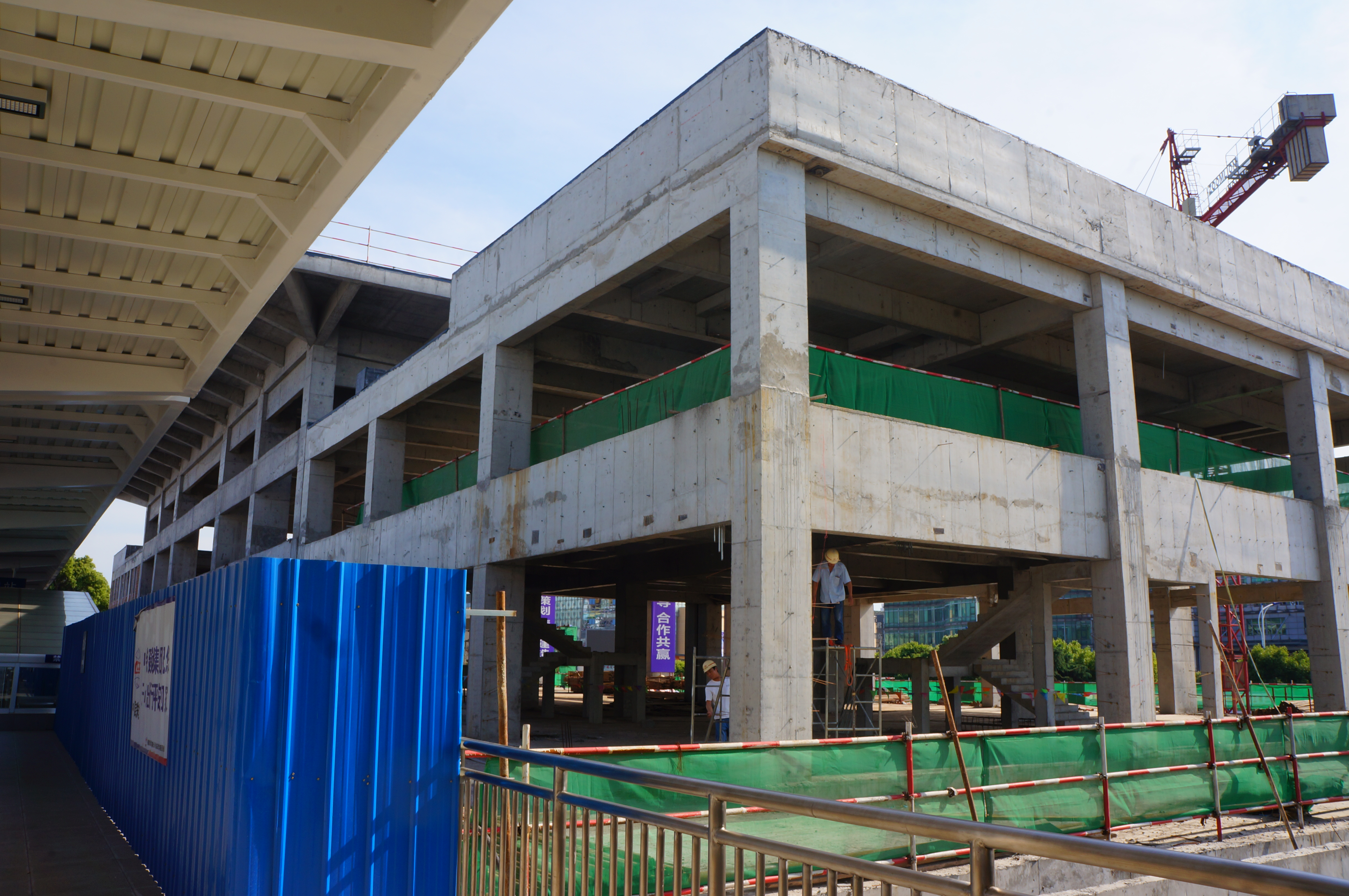 201705 South Station building of Danyang Station under Construction